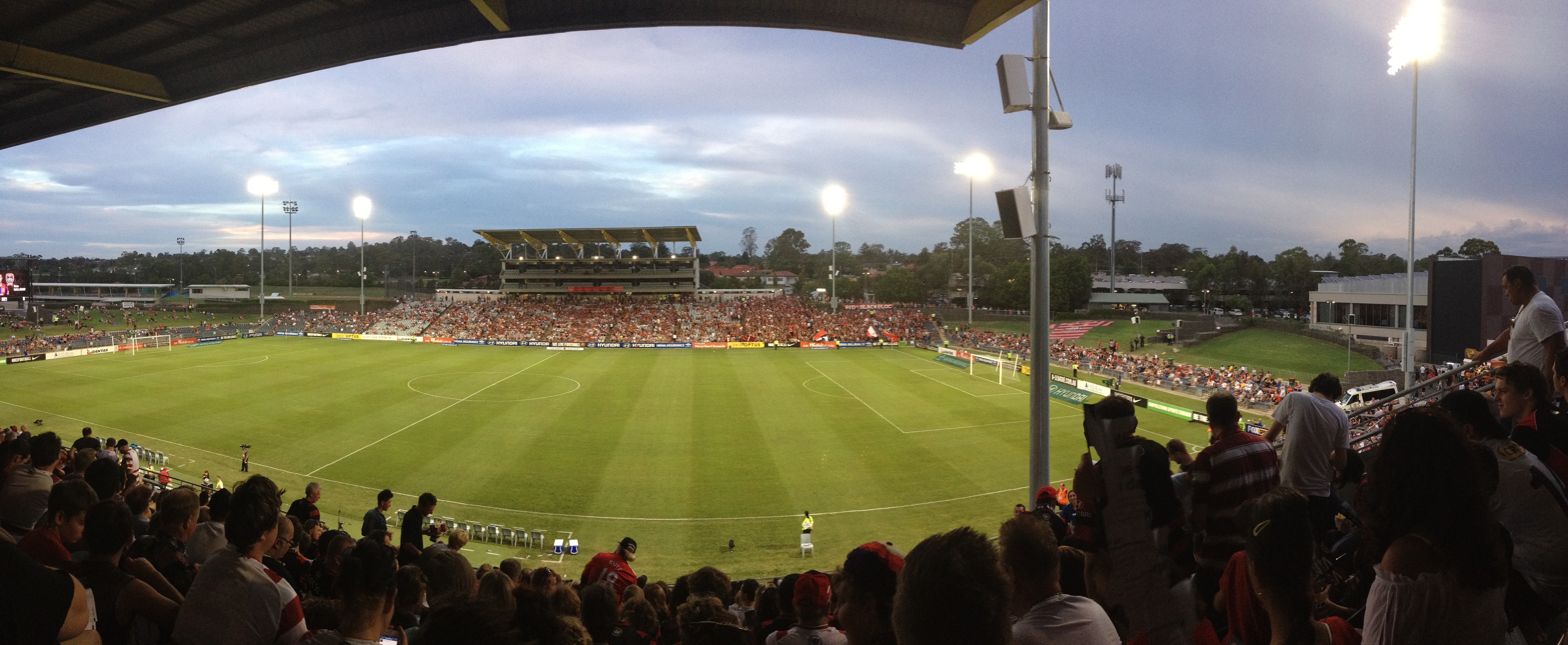 Western Sydney Wanderers FC 2-1 Newcastle Jets FC Round 20 10.02.2013 pre-game at Campbelltown Stadium.